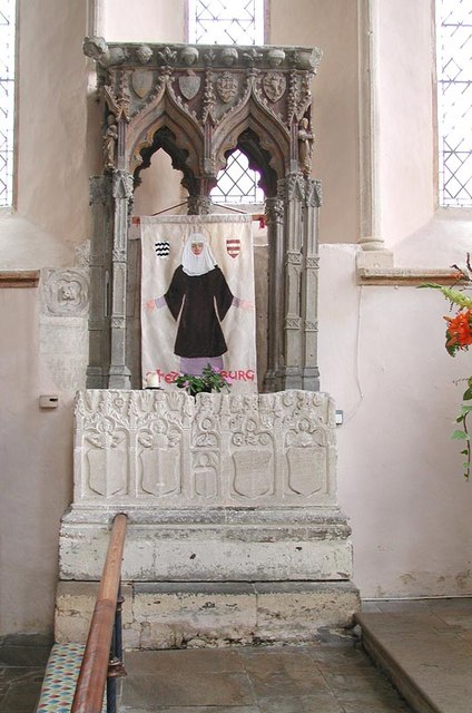 St Michael's parish church, Stanton Harcourt, Oxfordshire: shrine to St Edburg, dated 1294–1317